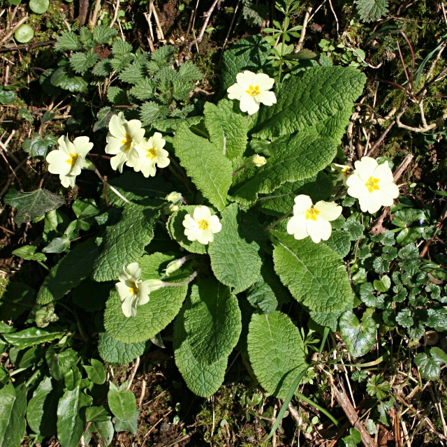 Primrose on the Hedgebank. In a few weeks time the other plants which are just beginning to put out leaves will have swamped this primrose but for now it's March and the Cornish hedgebanks are full of primrose flowers.